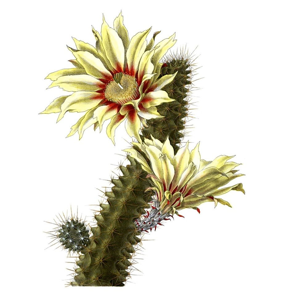 Echinocereus papillosus